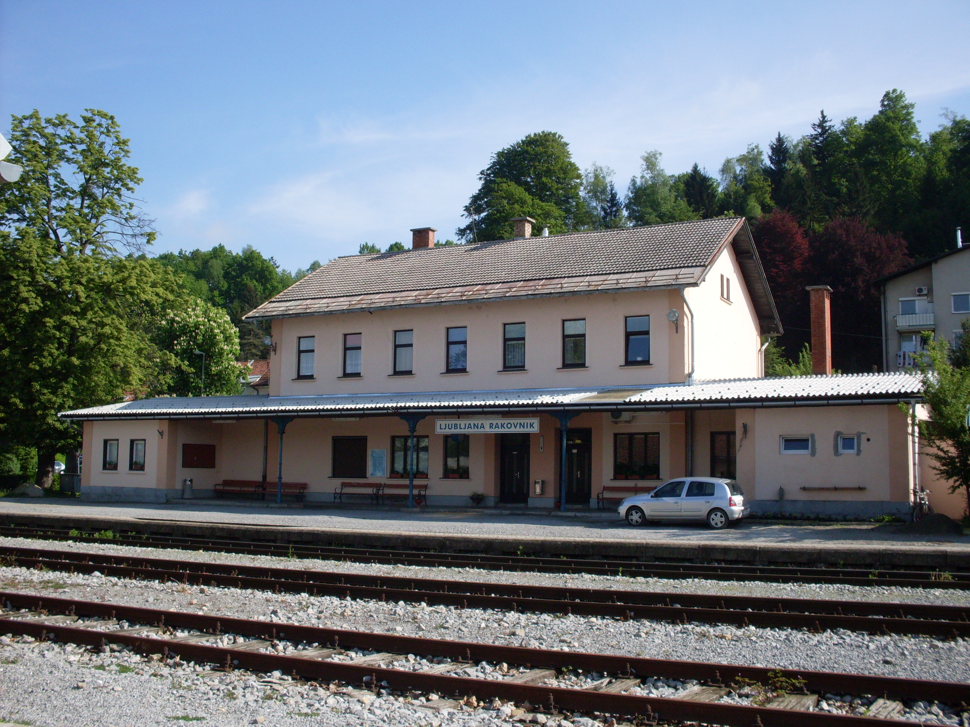 Ljubljana Rakovnik train station, serving Ljubljana's SE suburbs of Rakovnik and Galjevica